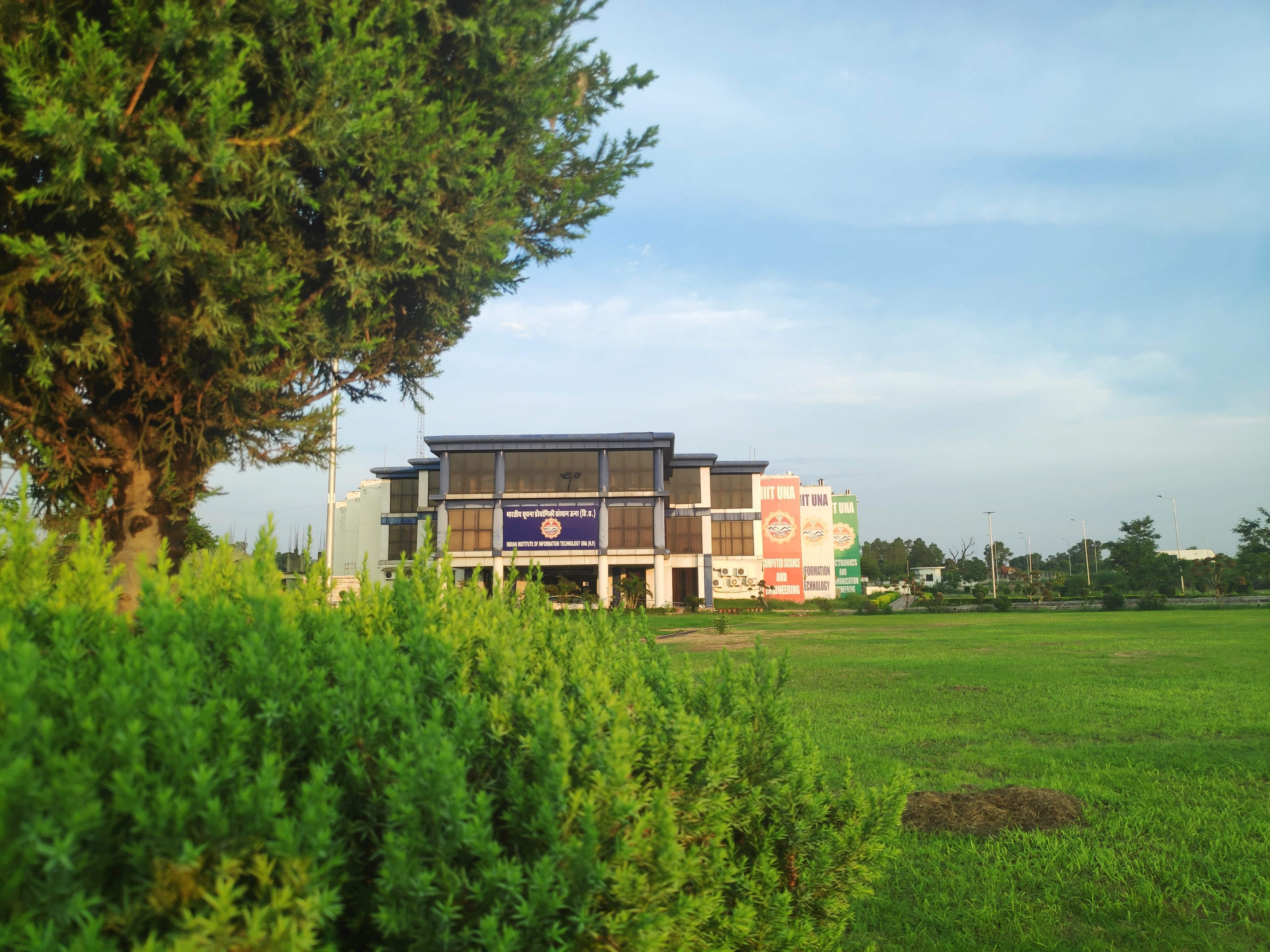 Its a beautiful campus situated at outskirts of una